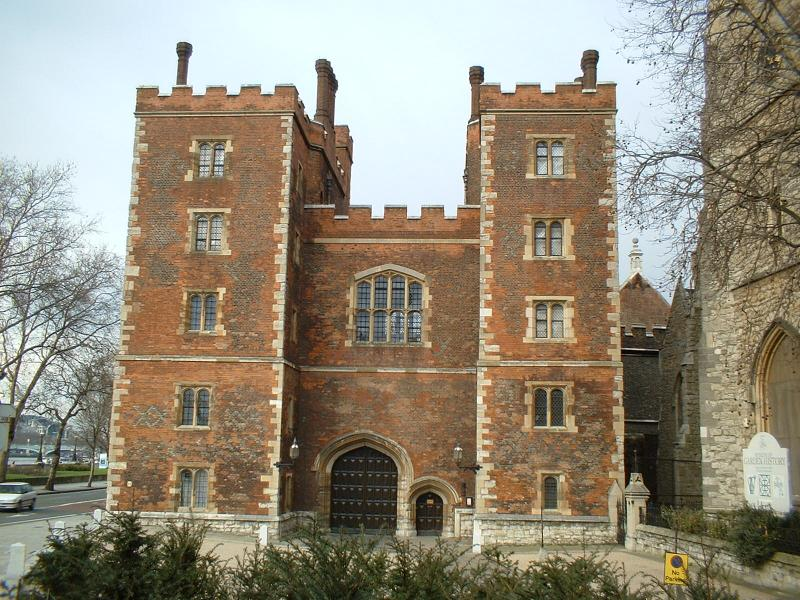 Lambeth Palace by C Ford 6th March 04. Think this is the Lollard's Tower.